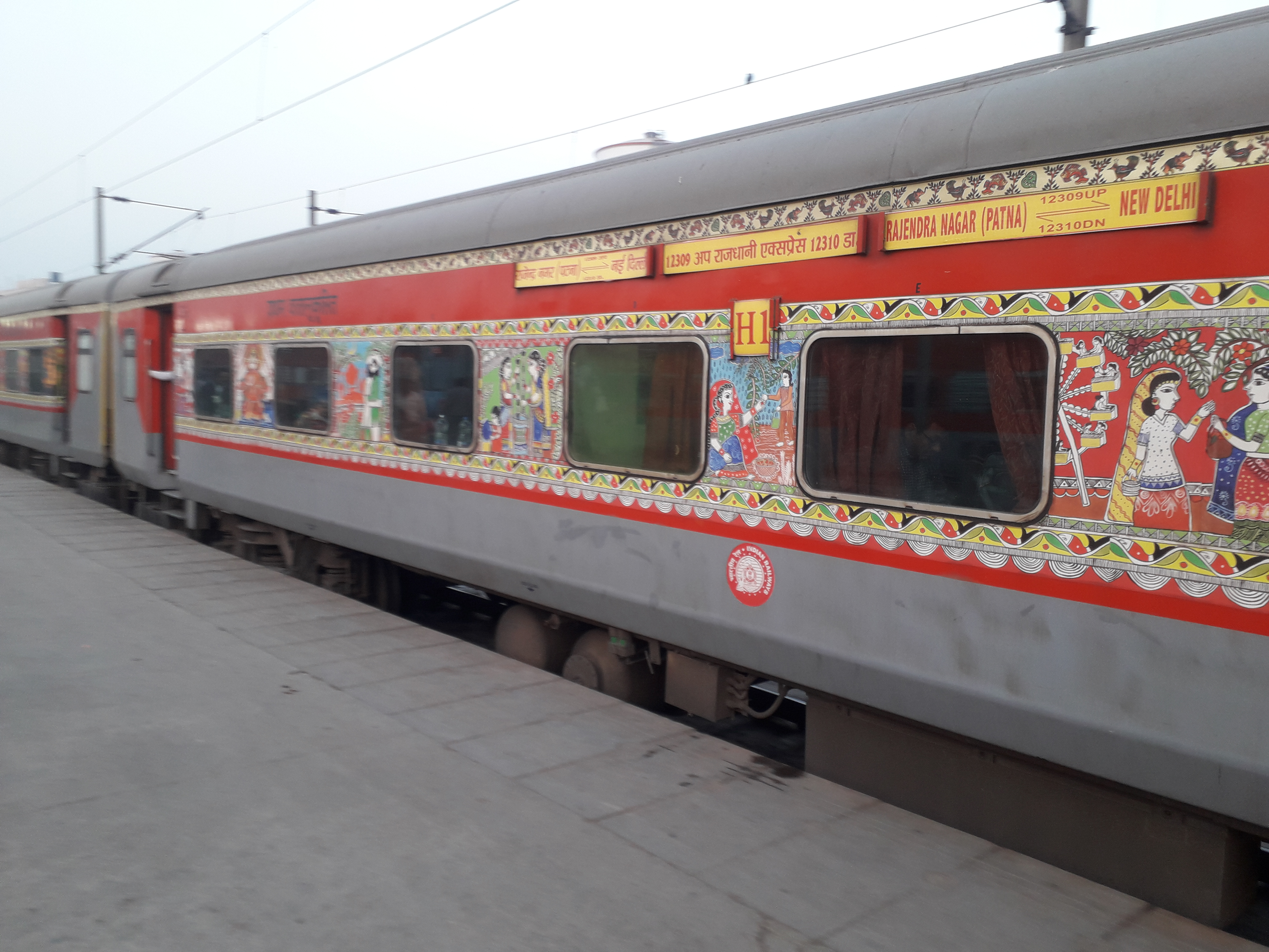 12309 Rajdhani Express - AC 1st Class - H1